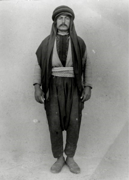 A Bedouin man of the Na'ime tribe of the Hauran in Syria in the late 19th century